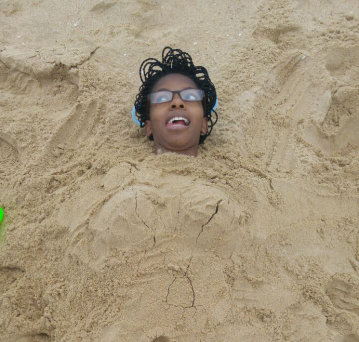 A woman hurried in the sand at the beach in kosibay This is an image from Zimbabwe